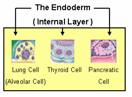 Endoderm